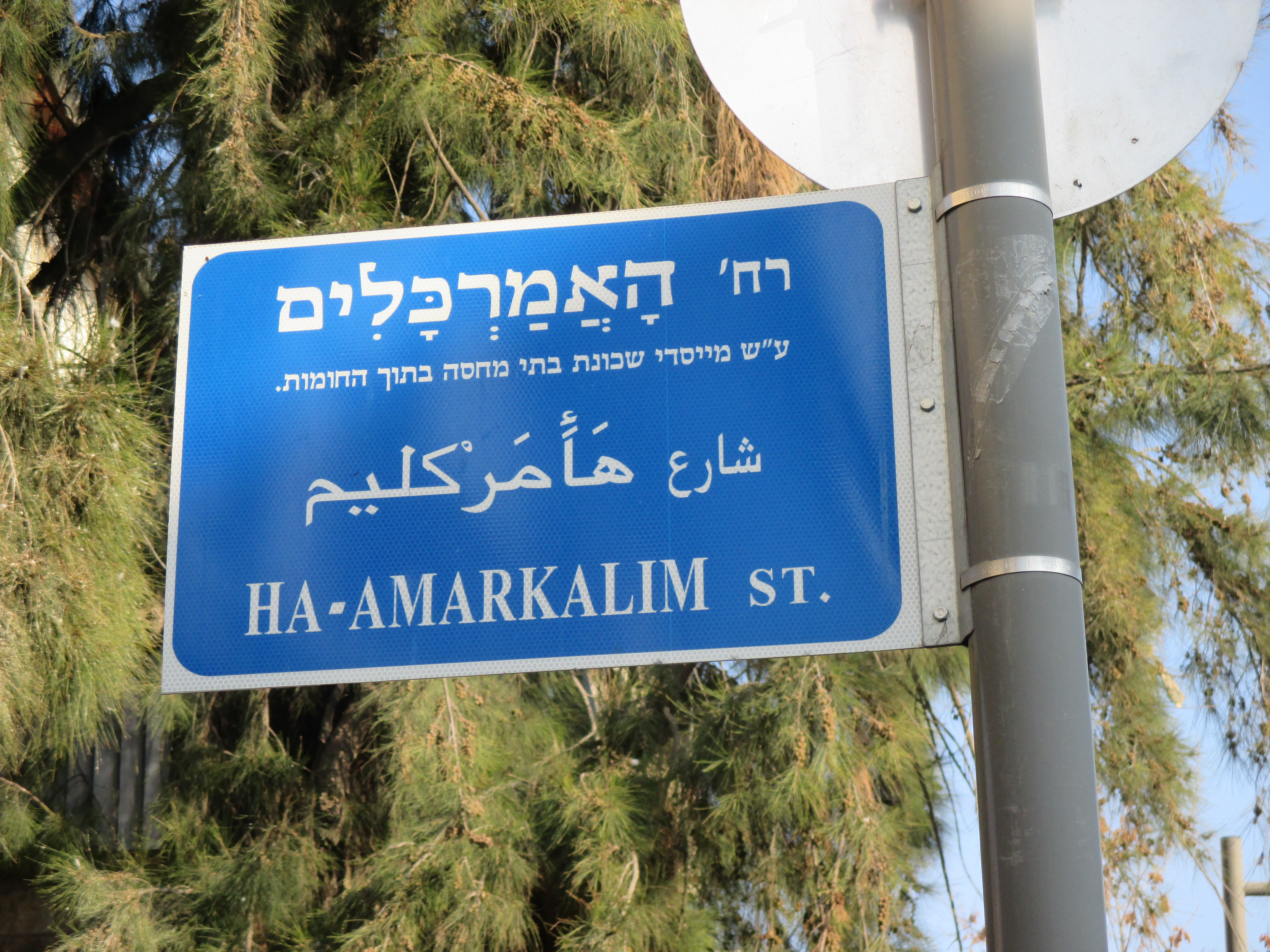 The Street of the Architects in Jerusalem. After the founders of the Batei Mahseh neighborhood.